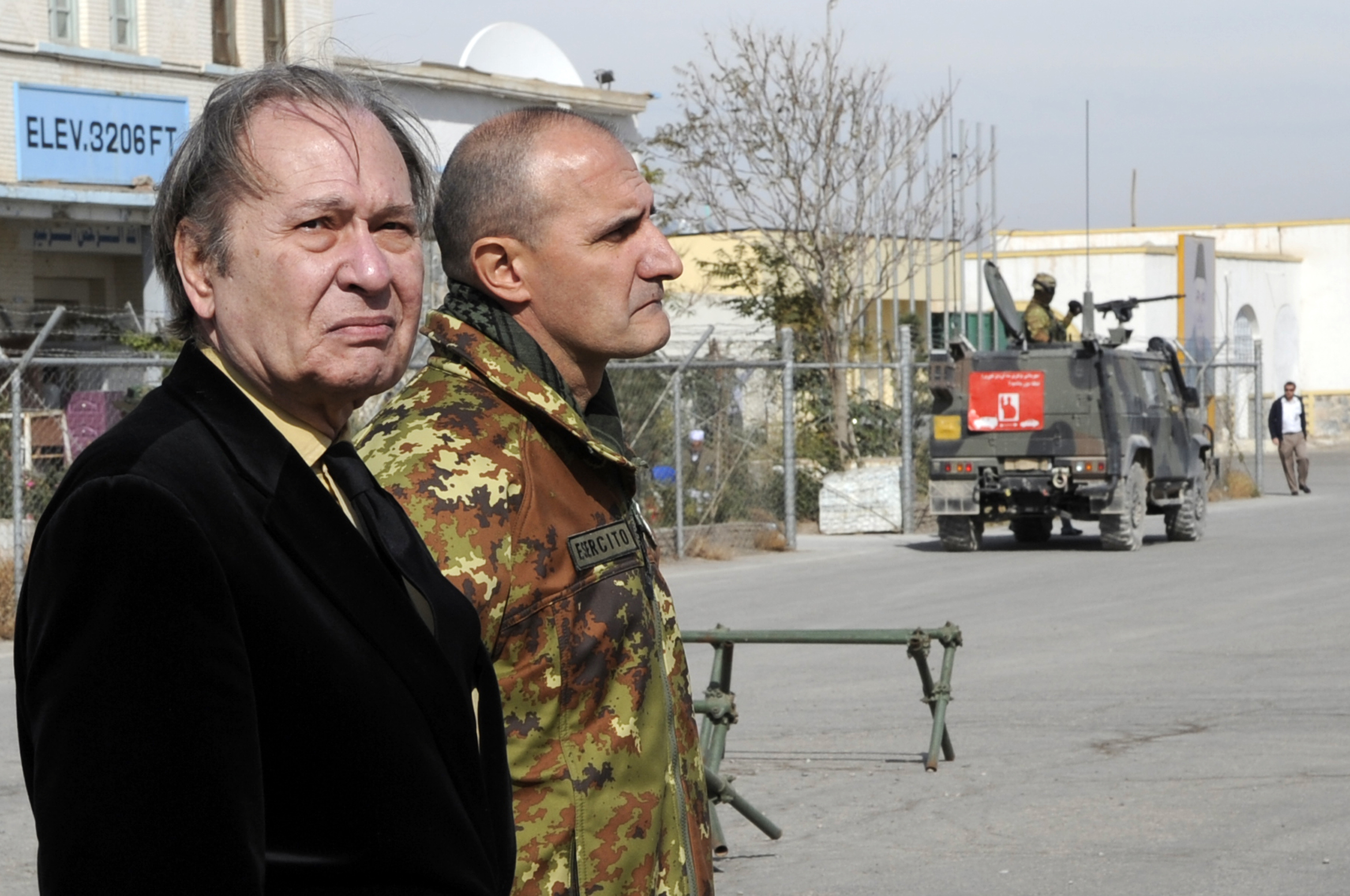 HERAT, Afghanistan--Spanish Ambassador to Afghanistan, Jose Turpin Molina and Italian Army General Paolo Serra, Commander, International Security Assistance Force (ISAF) Regional Command West await the arrival of Spanish Minister of Defense, Carme Chacon Piqueras at Camp Arena in western Afghanistan, Nov. 10, 2008. Piqueras came to Camp Arena in order to bring home the remains of two Spanish Army soldiers killed in action during a vehicle borne improvised explosive device attack near Shindand in western Afghanistan and to visit two other soldiers injured in the attack. The soldiers were performing an ISAF mission at the time of their death, Nov. 10, 2008 (ISAF Photo by U.S. Air Force Tech. Sgt. Laura K. Smith)(released)